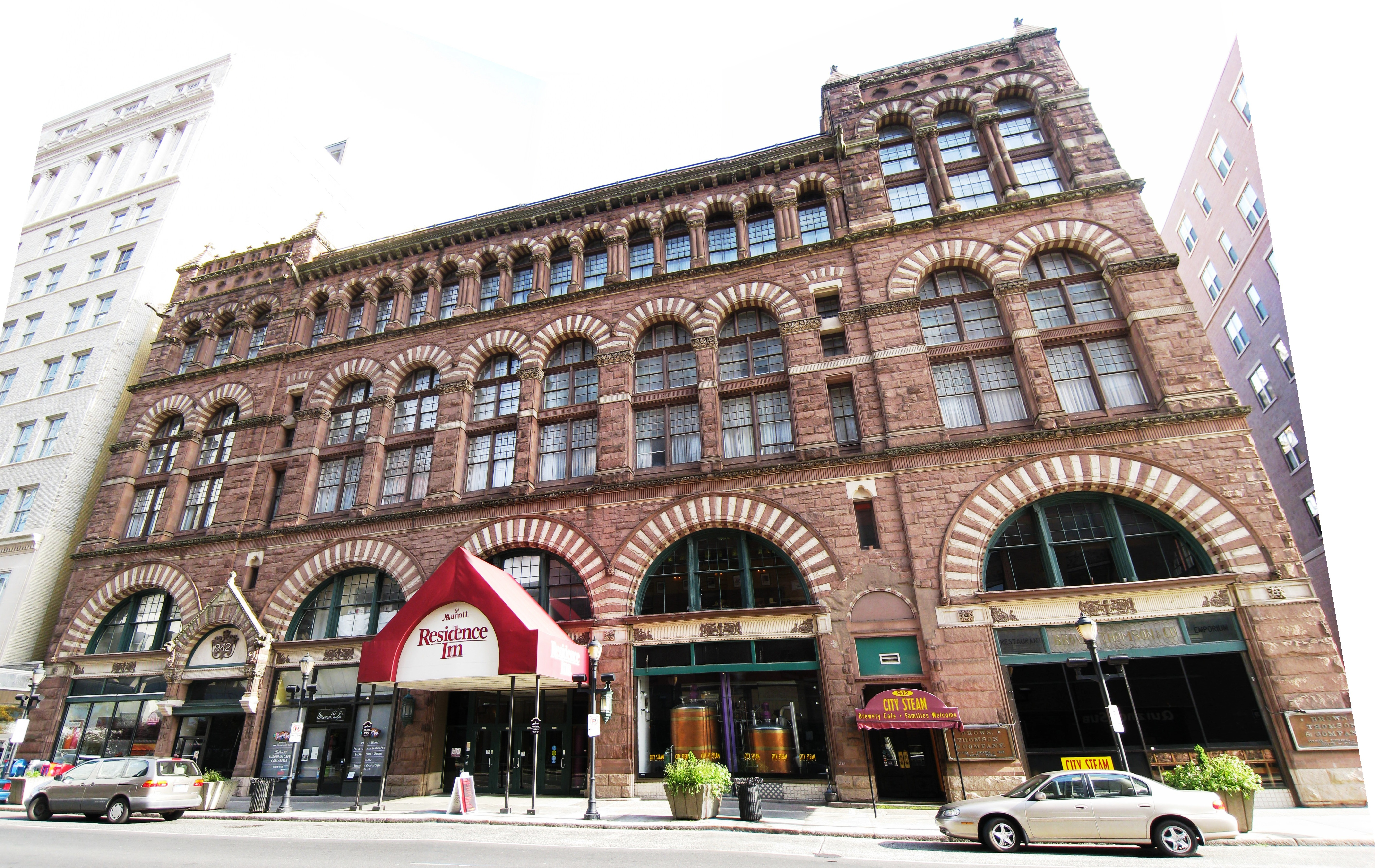 Main facade, composite view - Cheney Building, Hartford, Connecticut, USA; H. H. Richardson (1838–1886), architect. Building was constructed 1875-1876. Note that copyrights on this building (if any) have long since expired.